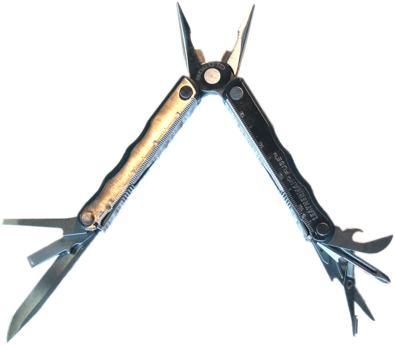 Multitool knive Leatherman Fuse.